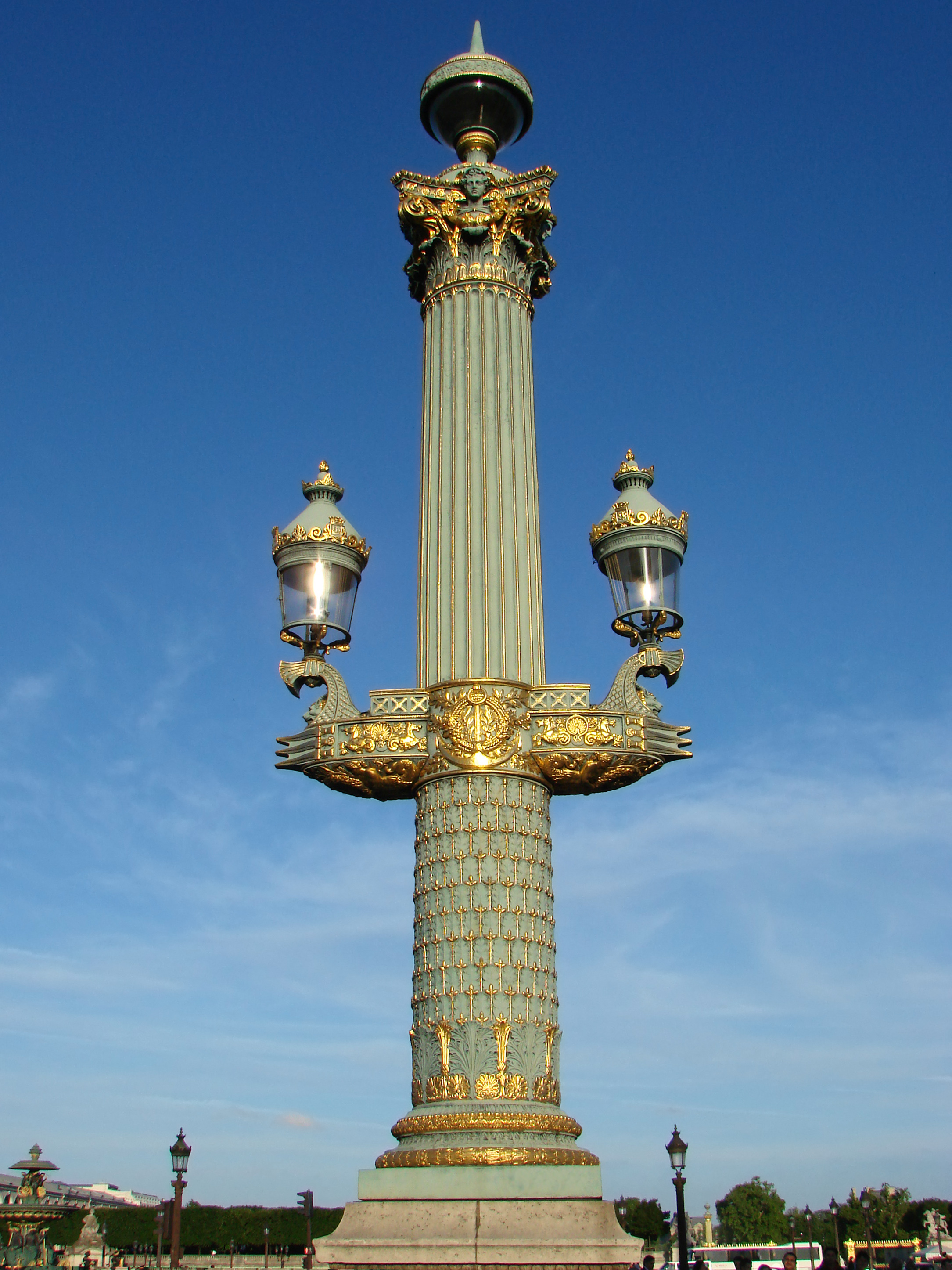 A street lamp, Place de la Concorde, Paris.